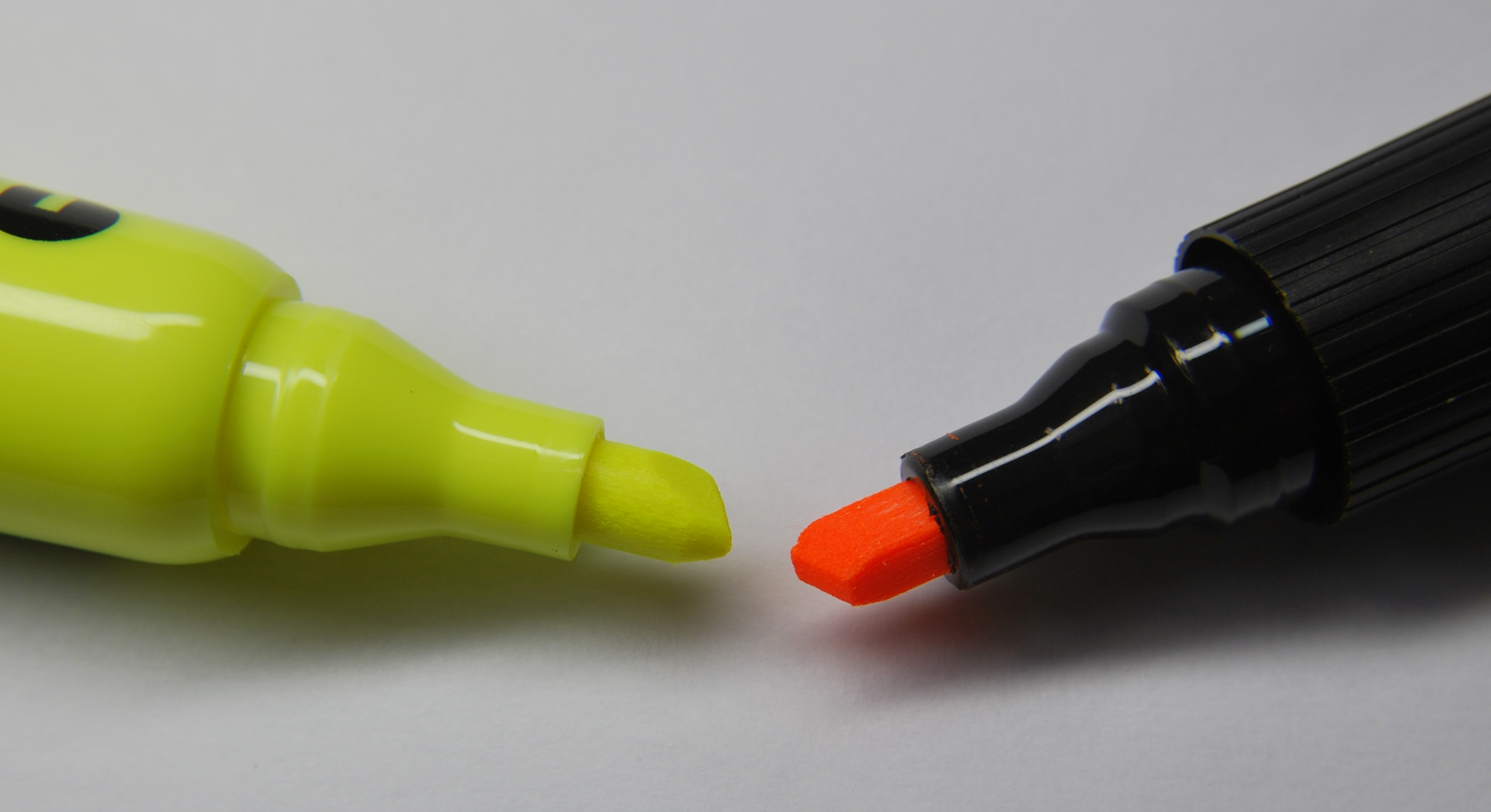 A closeup of yellow and orange highlighters tips.